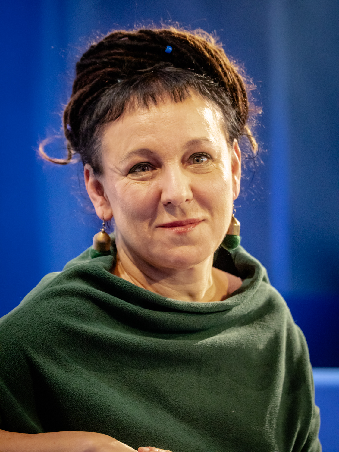 Author Olga Tokarczuk at the Frankfurt Book Fair 2019